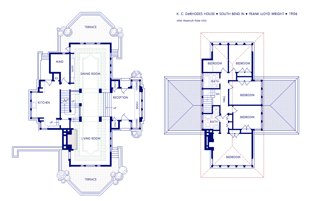 First and second floor plan of the K. C. DeRhodes House, South Bend IN, designed by Frank Lloyd Wright, 1906. After Wasmuth Plate XXIX.